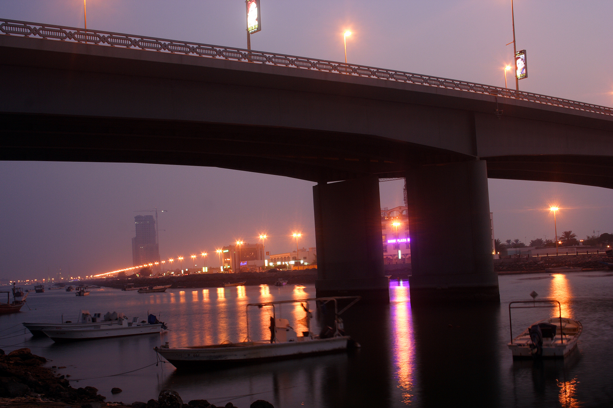 A bridge at Ras Al Khaimah.